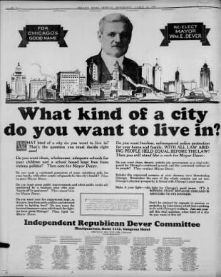 Independent Dever Committee ad run in Chicago Tribune